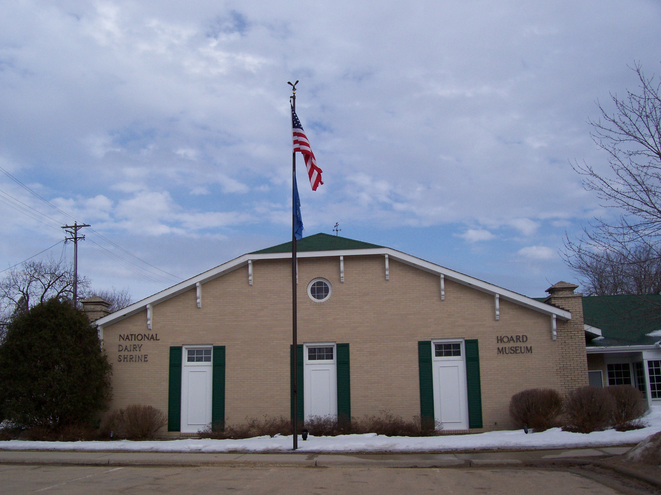 The Hoard Historic Museum and National Dairy Shrine building at Fort Atkinson, Wisconsin.